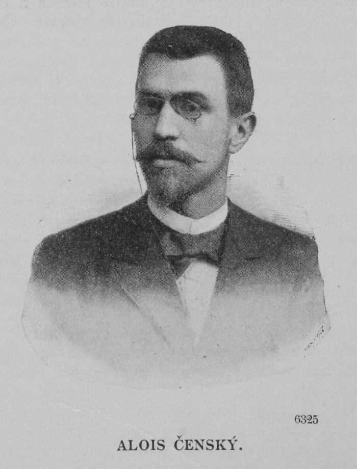 Portrait of Alois Čenský (1868 - 1954), Czech architect. He was one of the builders of "Czech village" on Czech & Slavonic Ethnographic Exhibition in Prague 1895.